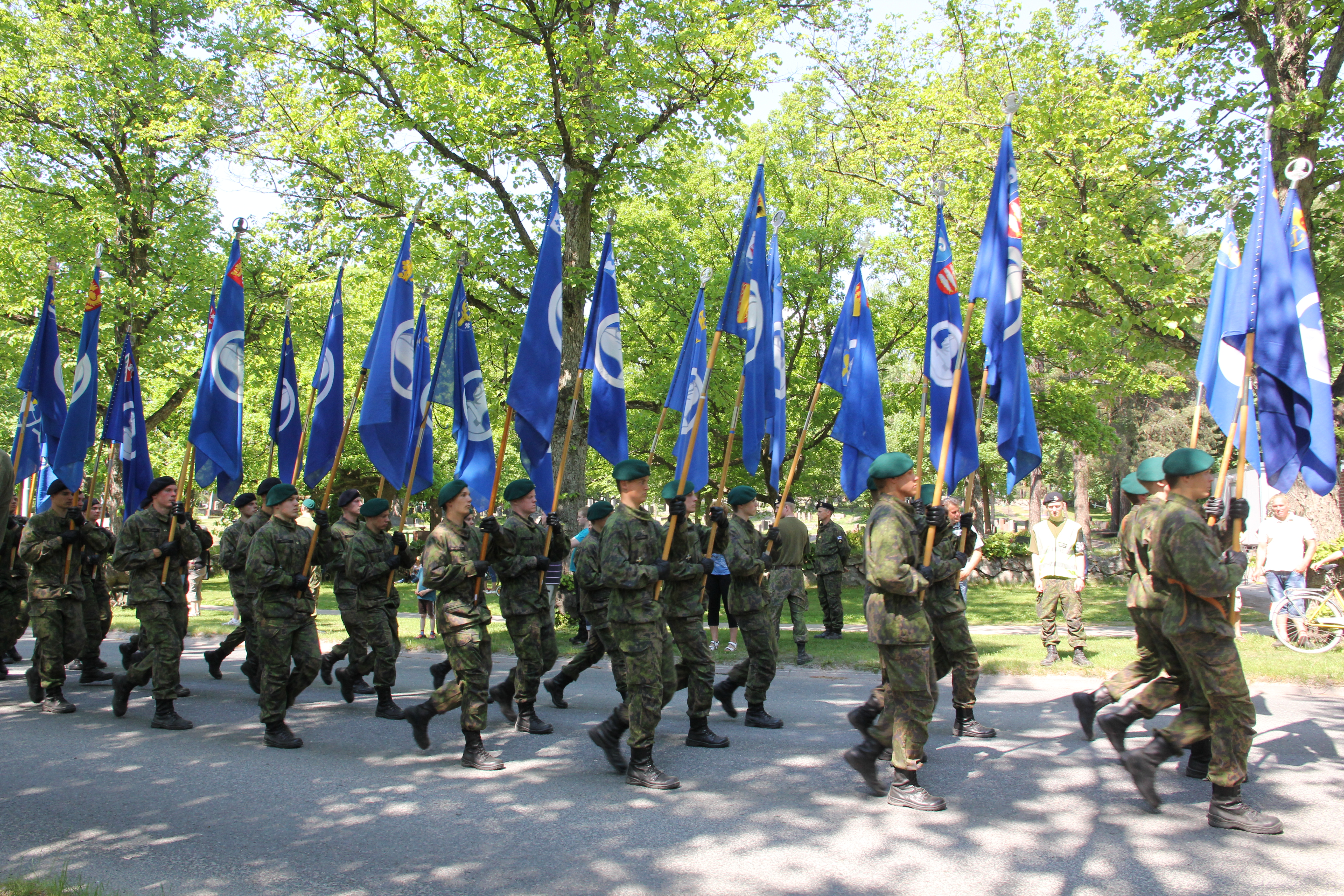 Veteran organization flags during the Finnish military Flag Day 2013 parade along Raaseporintie road in Tammisaari.